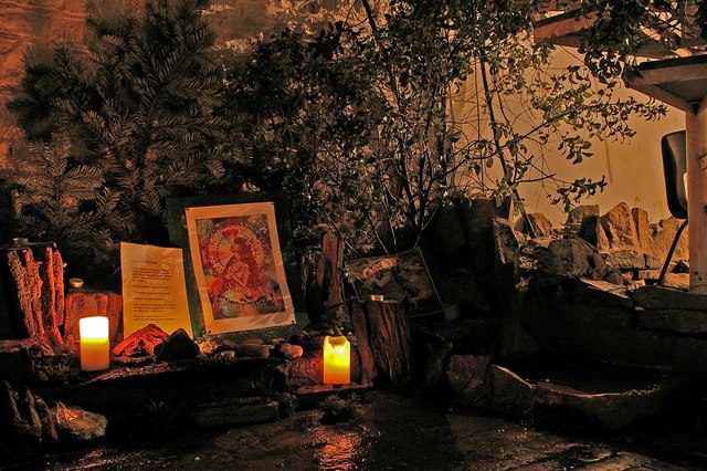 New Age Shrine Glastonbury. The well house at the white spring in Glastonbury is now a New Age Shrine, a curious mix of far eastern and native pagan philosophies all being celebrated and getting along like wicker men on fire! All appearing to co-exist in a spirit that if some other religious devotees emulated the world would be a more peaceful place.